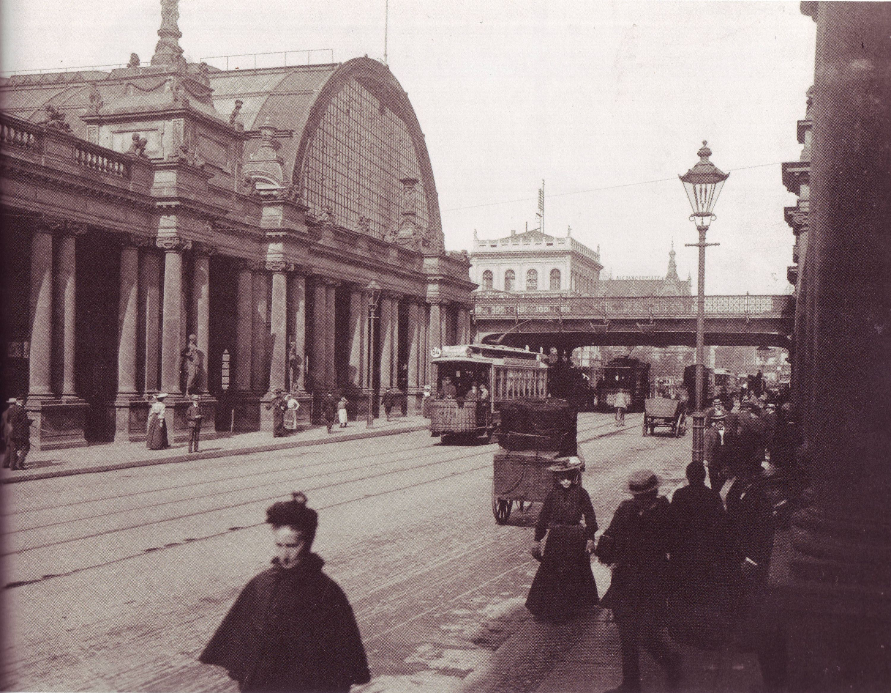 Berlin Alexanderplatz railway station, 1904